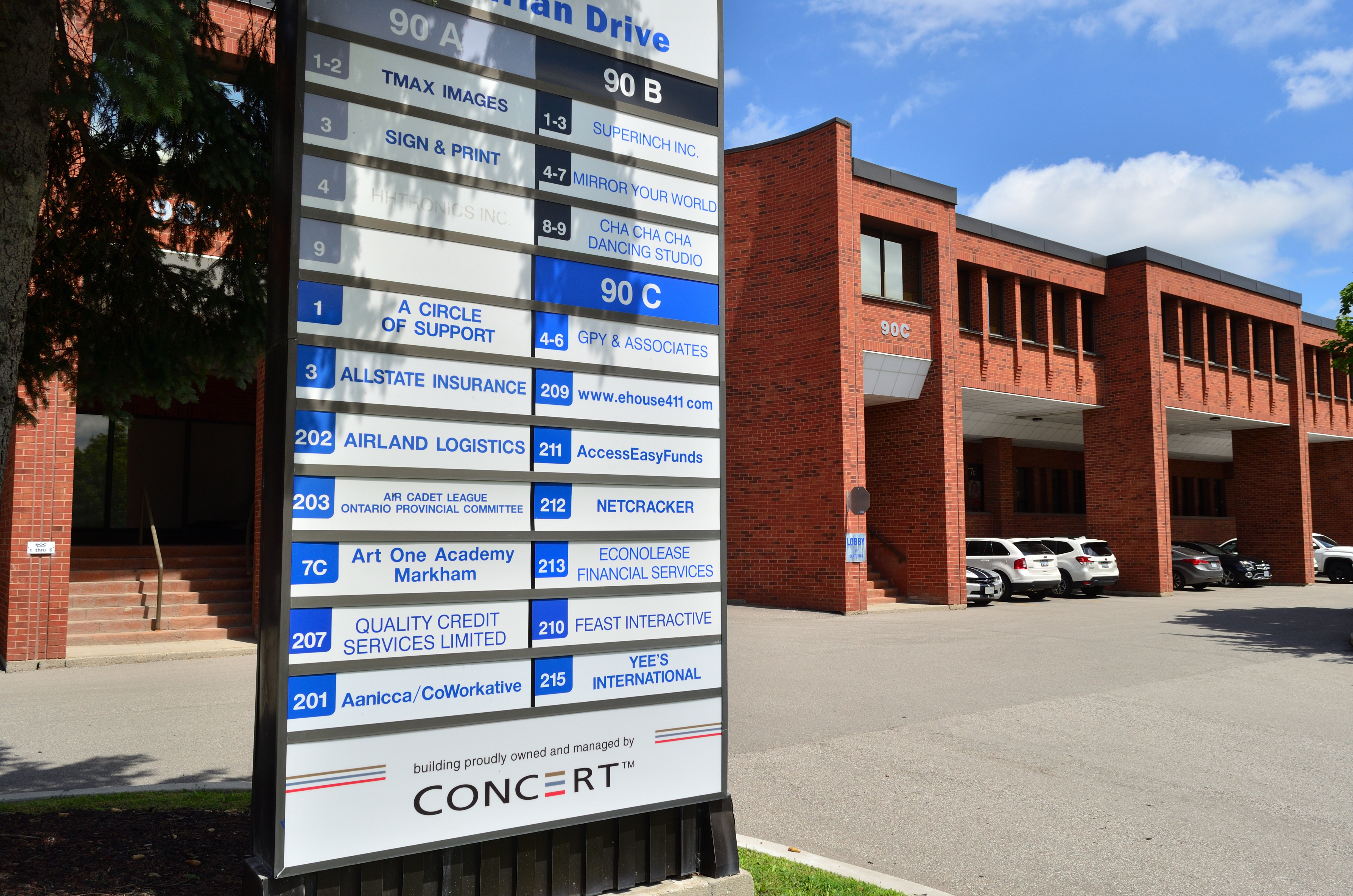 Business park owned by Concert Properties in Markham - Address: 90 Centurian Drive, Markham, ON L3R 8C1